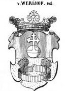 Coat of arms of Werlhof family (variant) according to J. Siebmacher's grosses und allgemeines Wappenbuch, II. Band, 9. Abteilung; Der Hannöversche Adel; Author: Ad. M. Hildebrandt; Publikation: Nürnberg: Bauer & Raspe 1870, plate 36